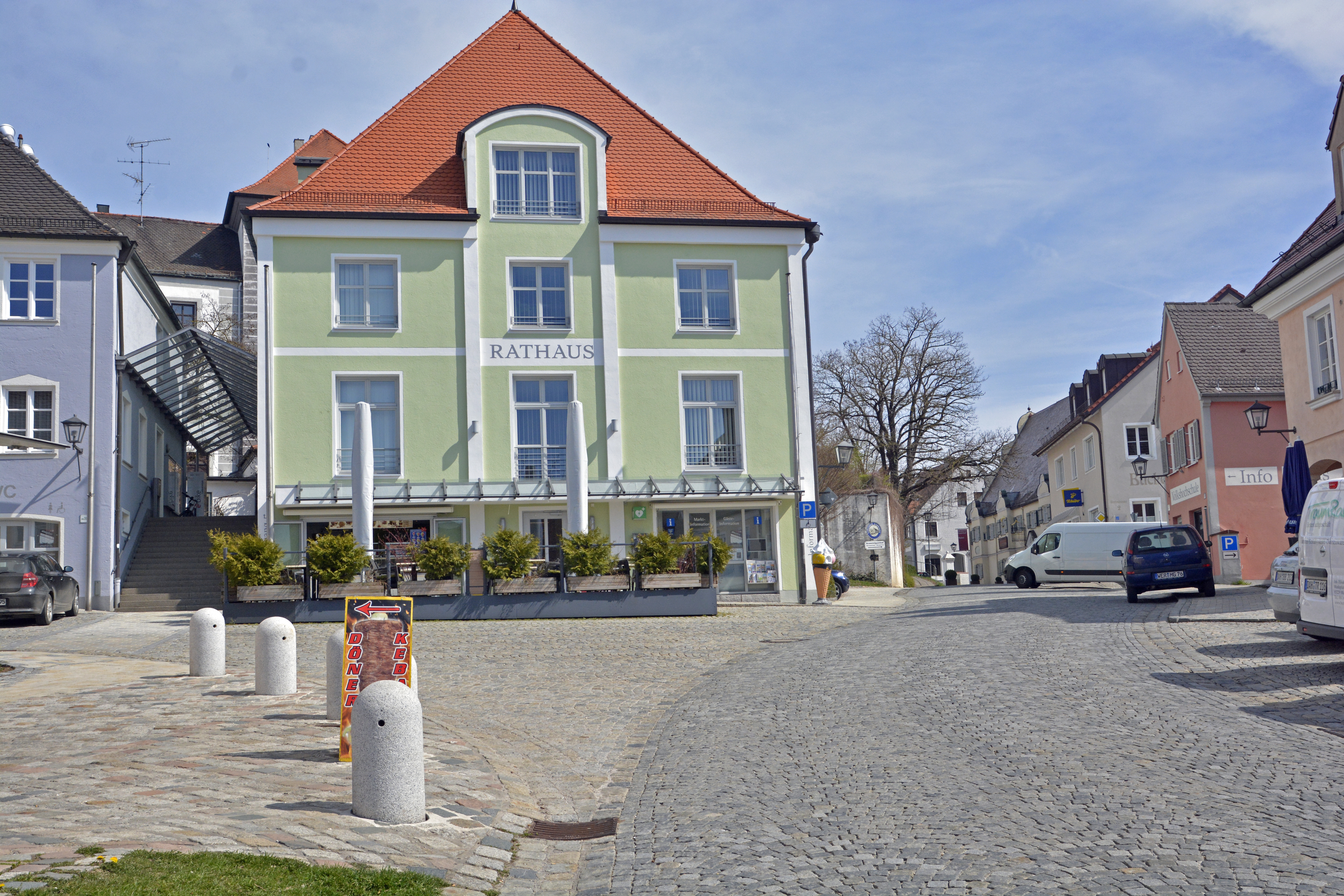 Altomuenster Town Hall (Dachau District)